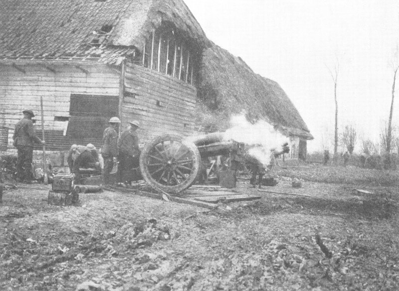 Photograph of a battery of British 6 inch 26 cwt howitzers firing. Note blurred image of wheels.